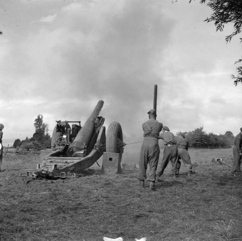 The British Army in North-west Europe 1944-45 7.2-inch howitzer in action, 2 September 1944.